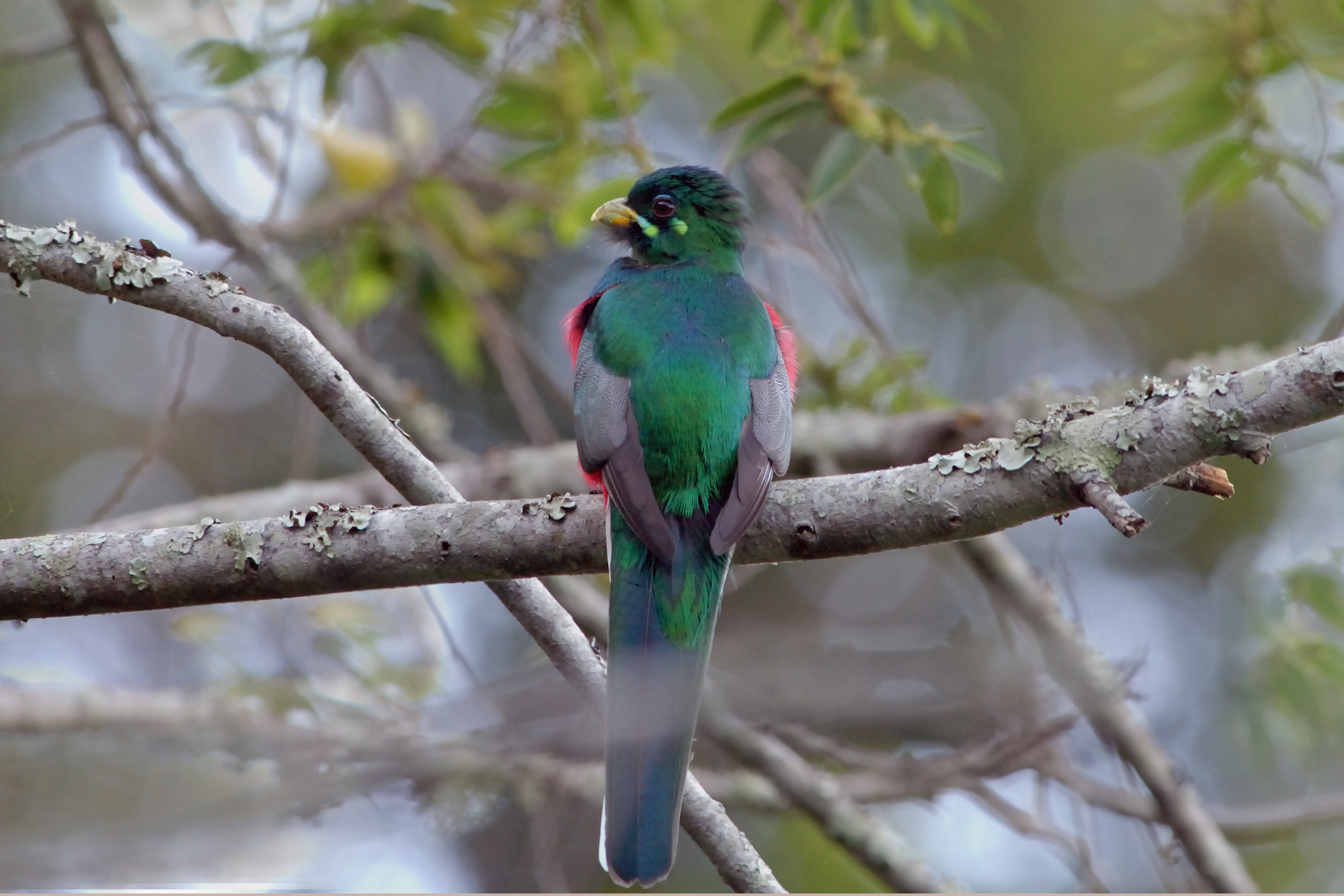 A male Narina Trogon in breeding condition, perched in Pigeonwood in Oribi Gorge, KwaZulu-Natal, South Africa. The nominate race has greener (i.e. less coppery) plumage than those northwards, with turquoise face lappets in the breeding season. This individual has partially green lappets, possibly a consequence of displaying. The bare green throat patch is also visible. Females have brown face and chest plumage, and smaller lappets.